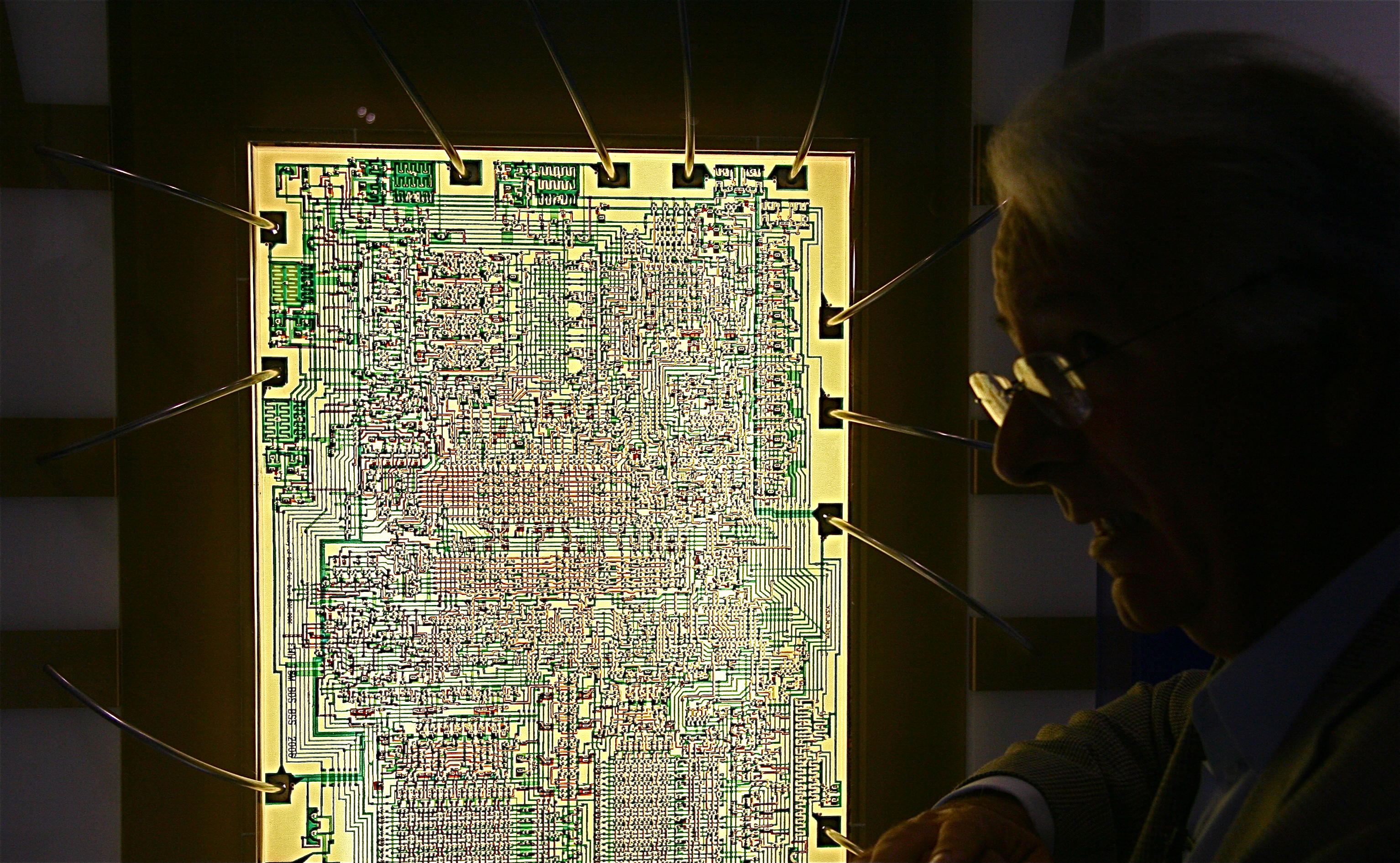 If you could ask only one person about the limits of computers past, present and future, the right person might be Federico Faggin. Forty years ago it was Faggin who designed the first microprocessor that led to the PC revolution. After a career dedicated to integrating transistors to create intelligent computer chips, he has turned his attention to what a computer, even quantum computers, may never be able to do -- reach the potential of human consciousness.